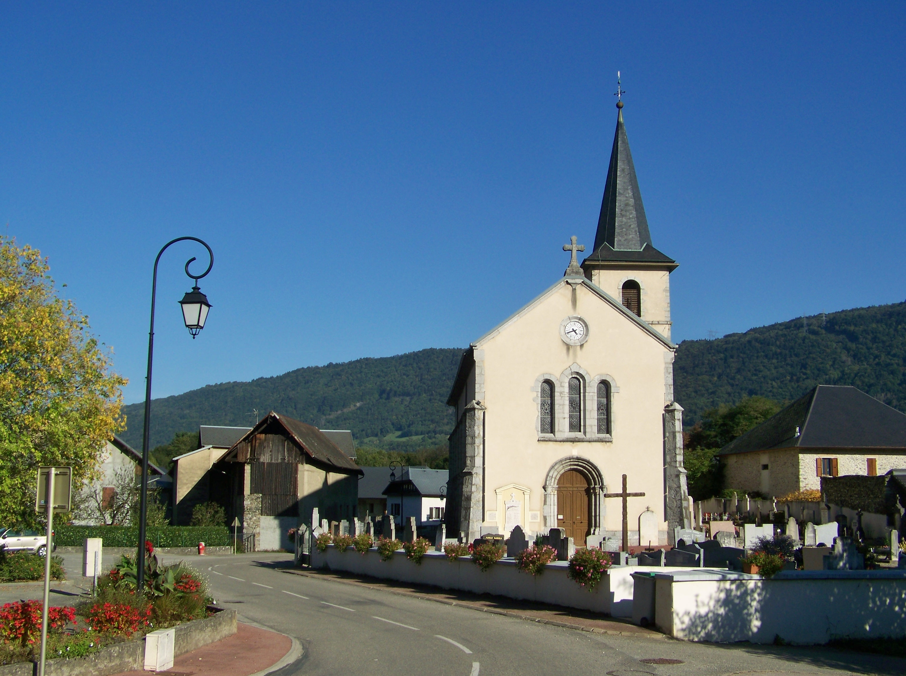 Main street and church of Sante-Hélène-du-Lac village in Savoie, France.